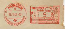 Franking of Third Reich, 1941